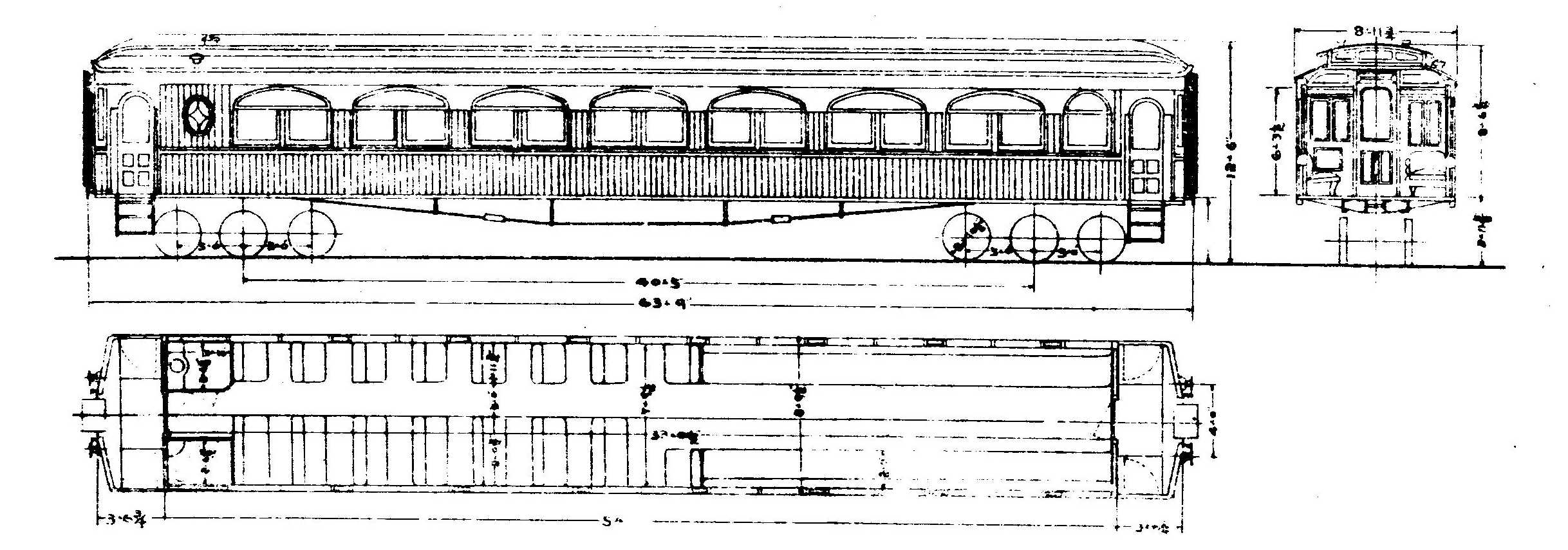 Type drawing of JGR's Fusuro9360 type passenger car.